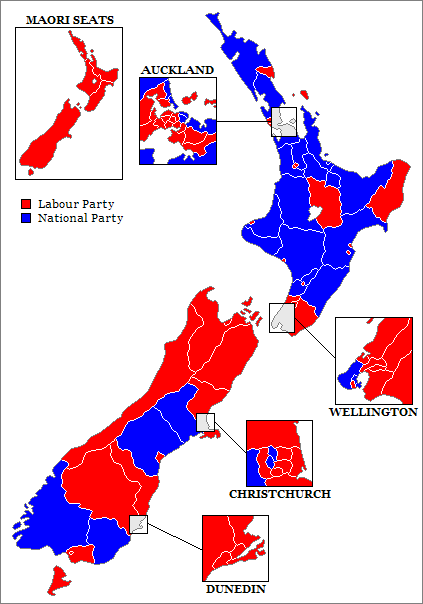 Map of New Zealand electorates in 1972. Made for Wikipedia.